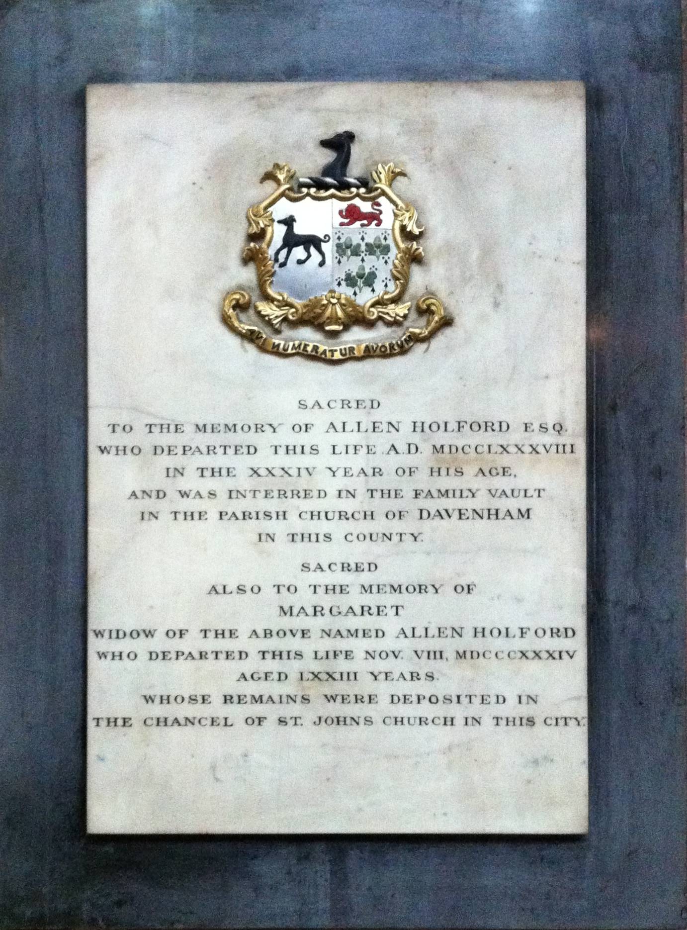 Allen Holford died 1788 aged 34; his widow Margaret Wrench, daughter of William Wrench of Chester, died 8 Nov 1834 aged 73. His daughter and heiress Anna-Maria Holford married Joshua Walker (1786-1862), of Hendon Place, Middlesex, MP for Aldeburgh (UK Parliament constituency), Suffolk (Source: Heraldic illustrations, by J. and J. B. Burke, Volume 2, Plate XCI, pedigree of Holford[1]). Arms of Holford: Argent, a greyhound passant sable (Guillim, Display of Heraldie[2])